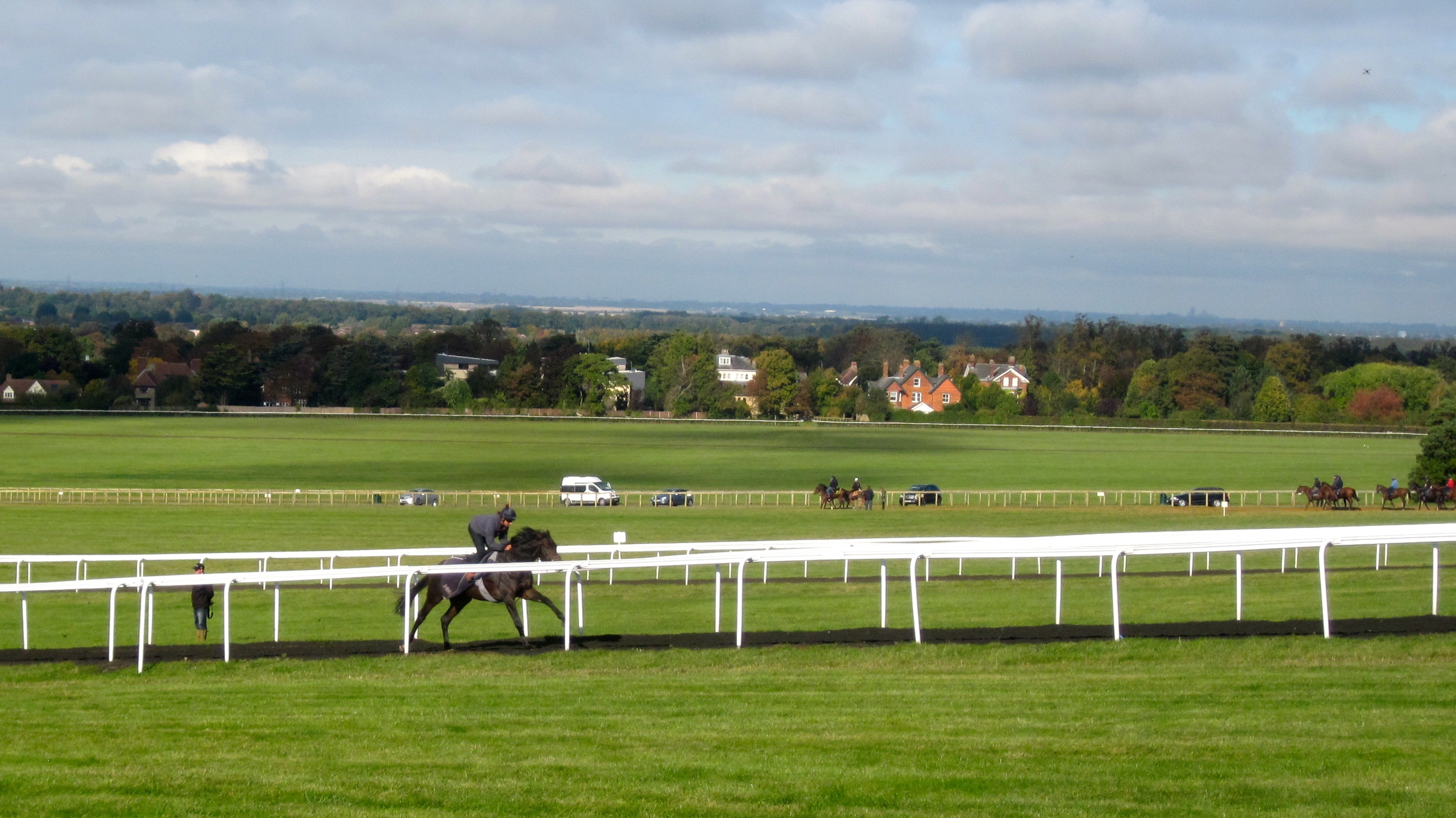 Horses galloping on the Long Hill training grounds in Newmarket, Suffolk, UK. Warren Hill is also visible, as are the buildings on one side of the exclusive Bury Road, home to many globally leading stables.